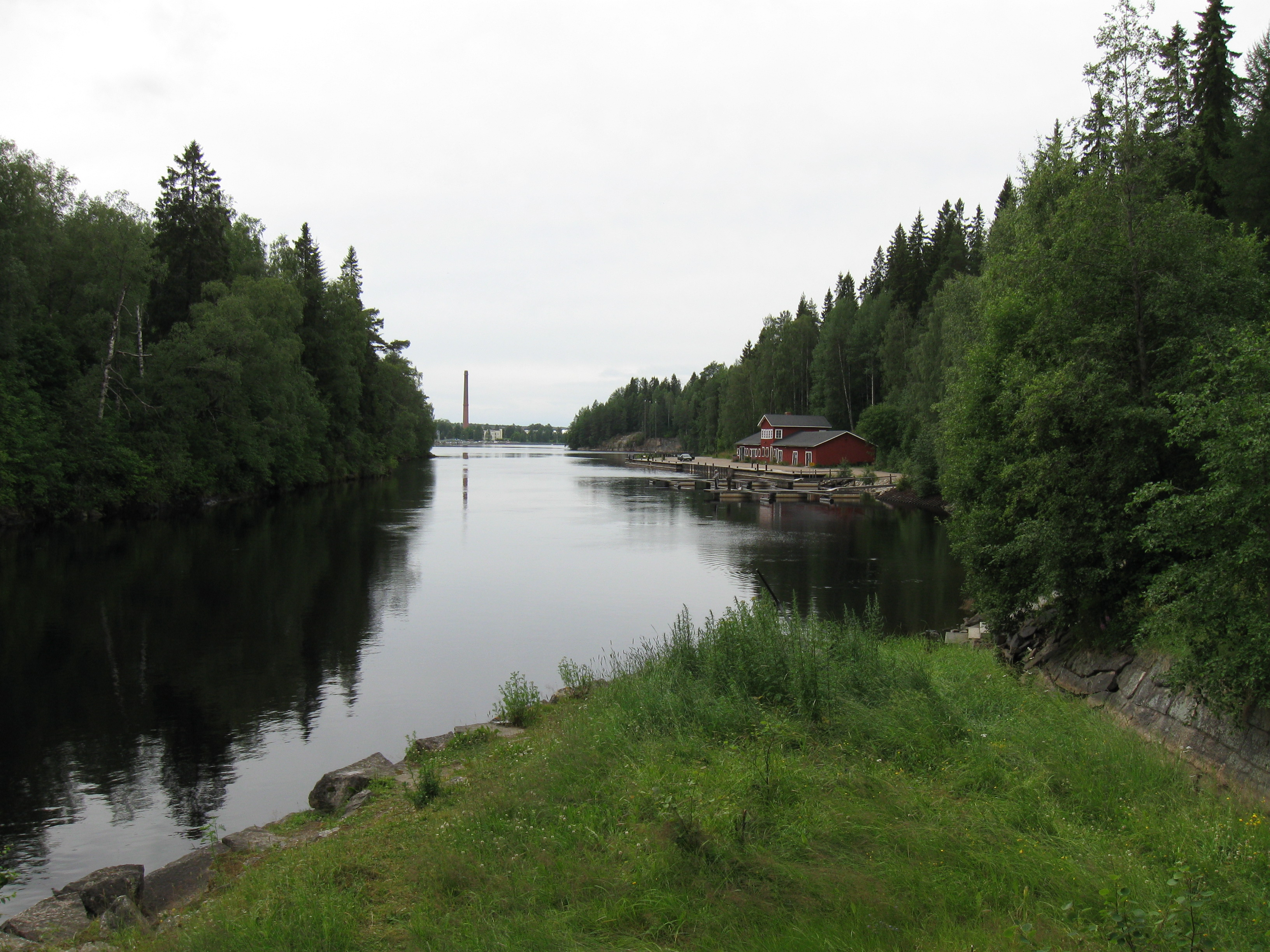 The Kajaaninjoki river at Ämmäkoski in Kajaani, seen from the end of the tar boat canal towards downstream.